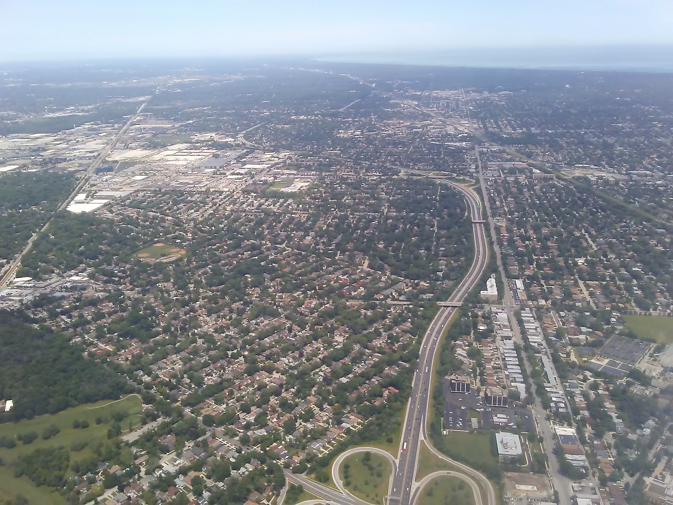 O'Hare Airport and Chicago, Illinois